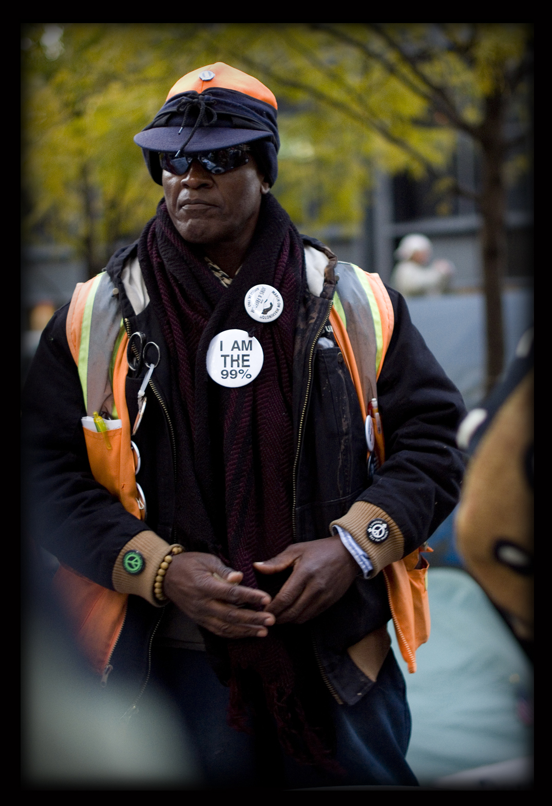 Zuccotti Park, Occupy Wall Street Movement, 11-11-11, New York City